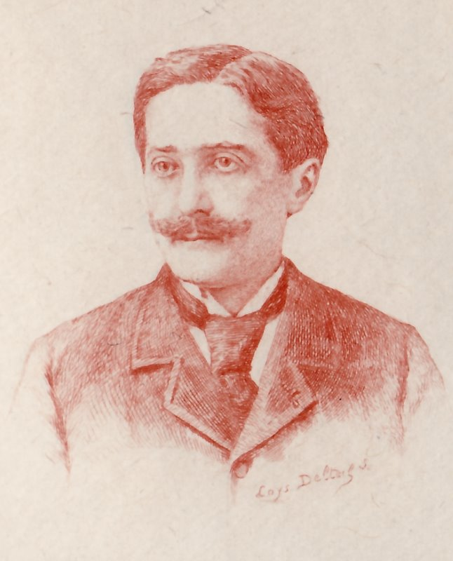 French writer and playwright Paul Hervieu (1857-1915)